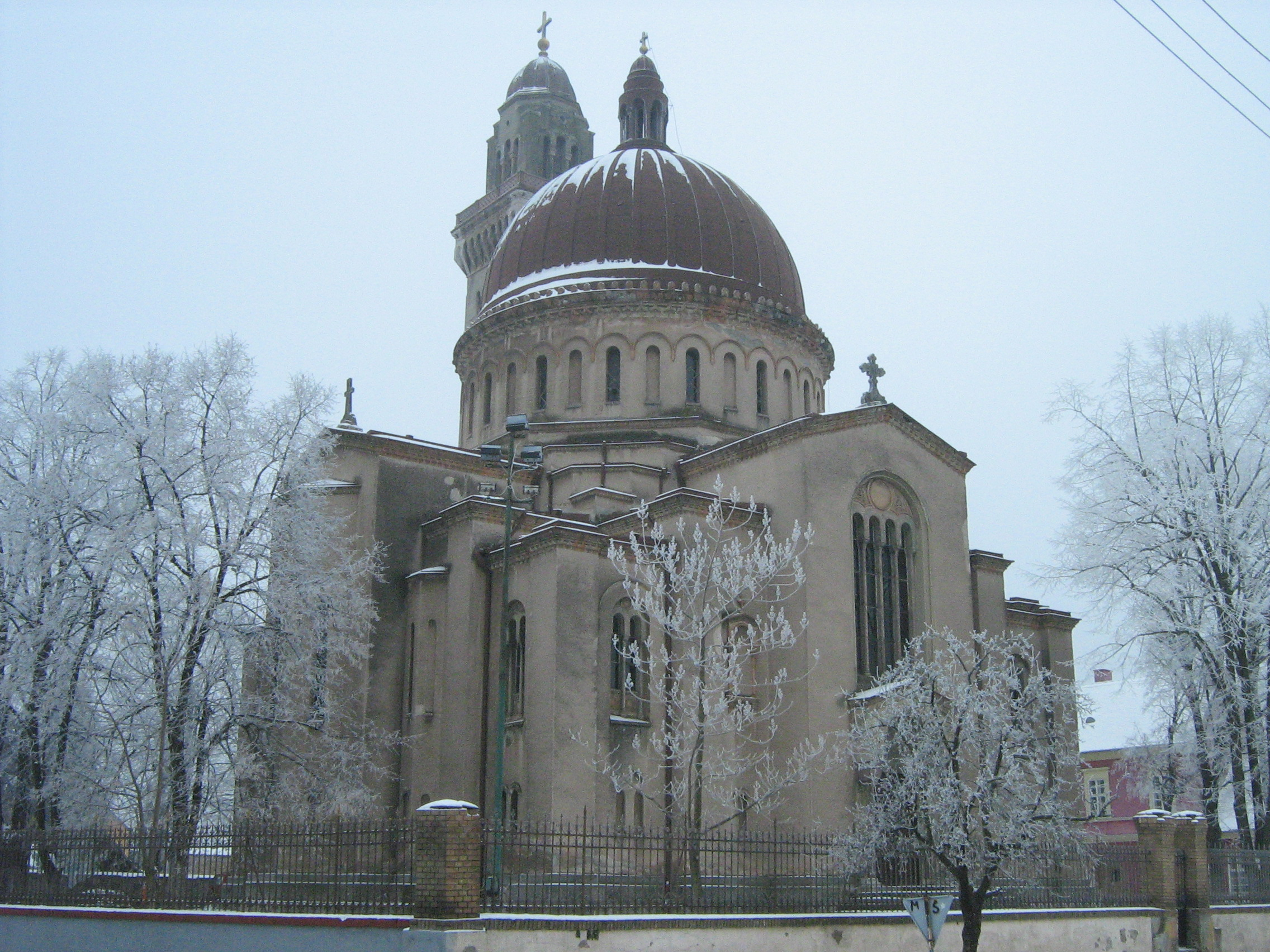 Uptown Serb church (Gornjovaroška Srpska Crkva) located in Uptown Pančevo.